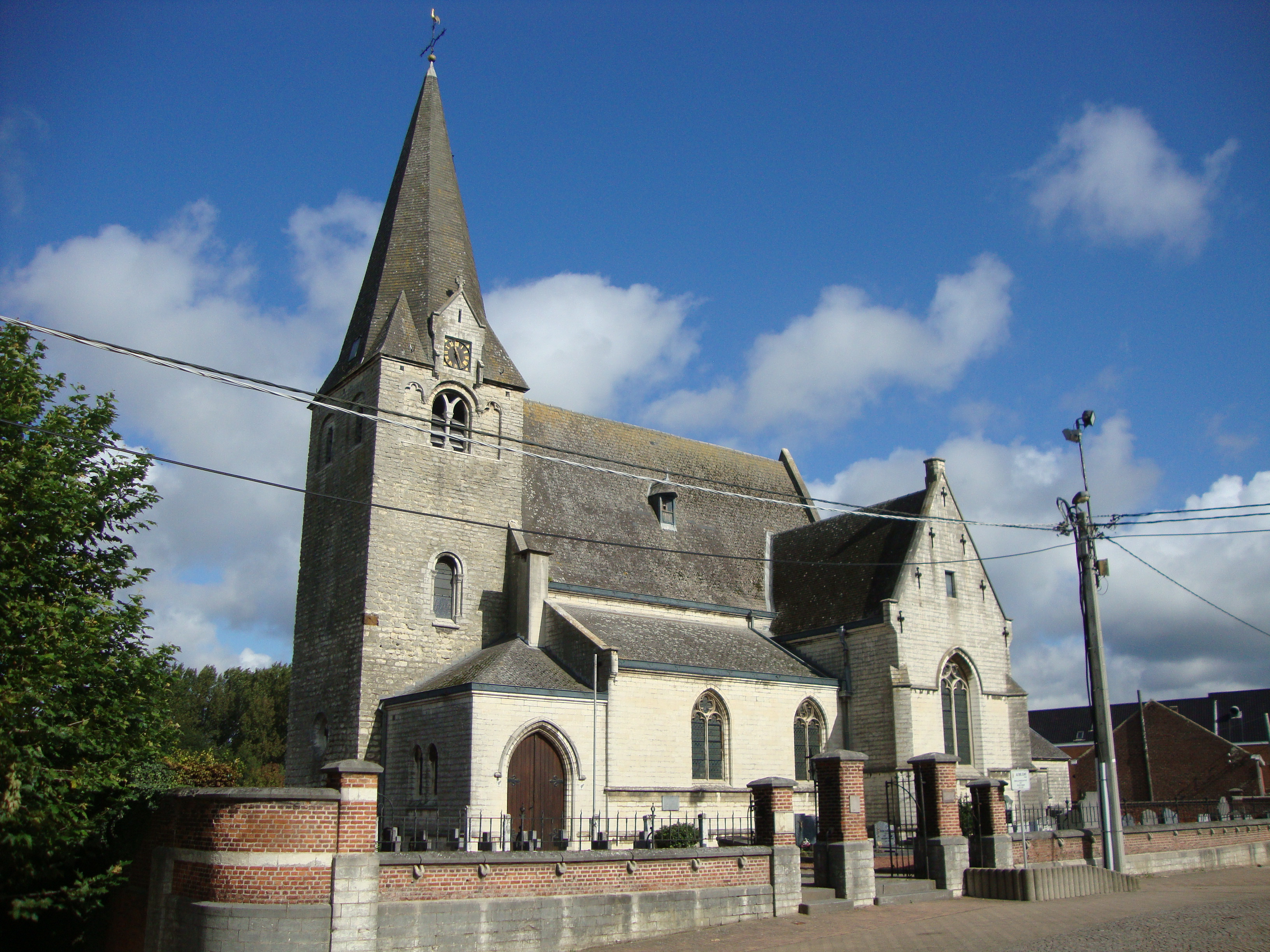 Parish Church from the 13th century, Meerbeek